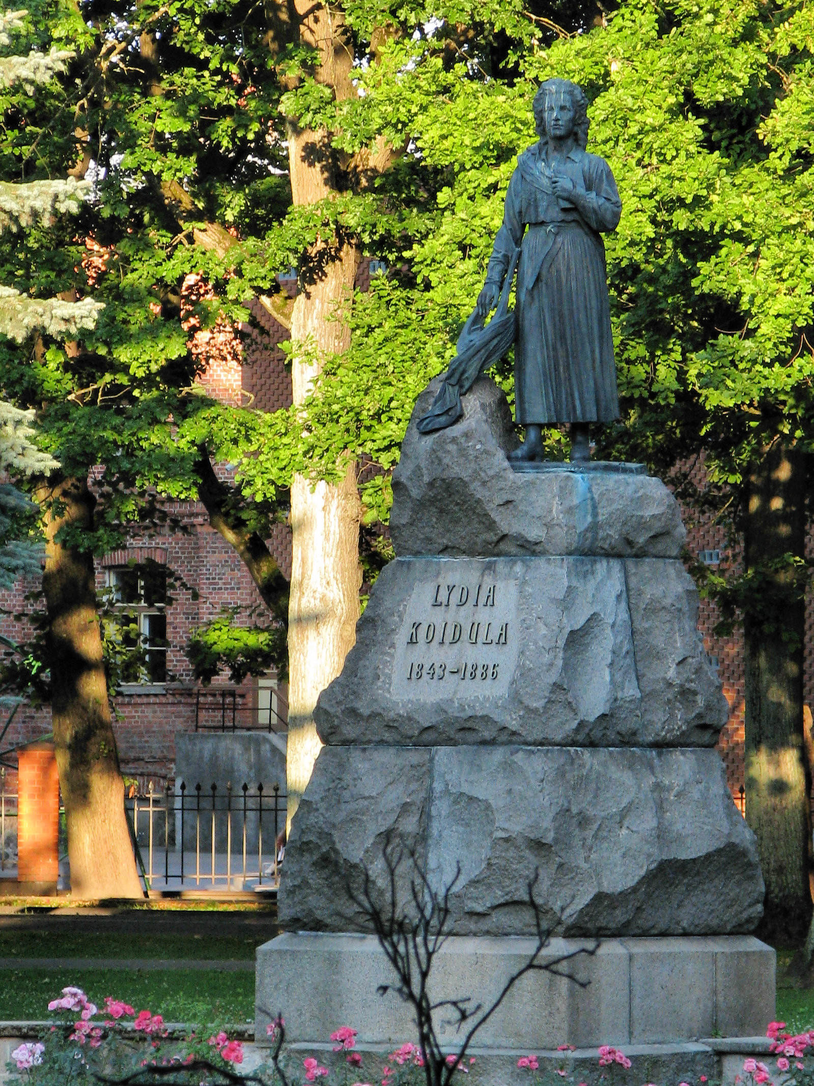 Statue of Lydia Koidula at Pärnu, Estonian poet. Author Amandus Adamson (1855-1929)